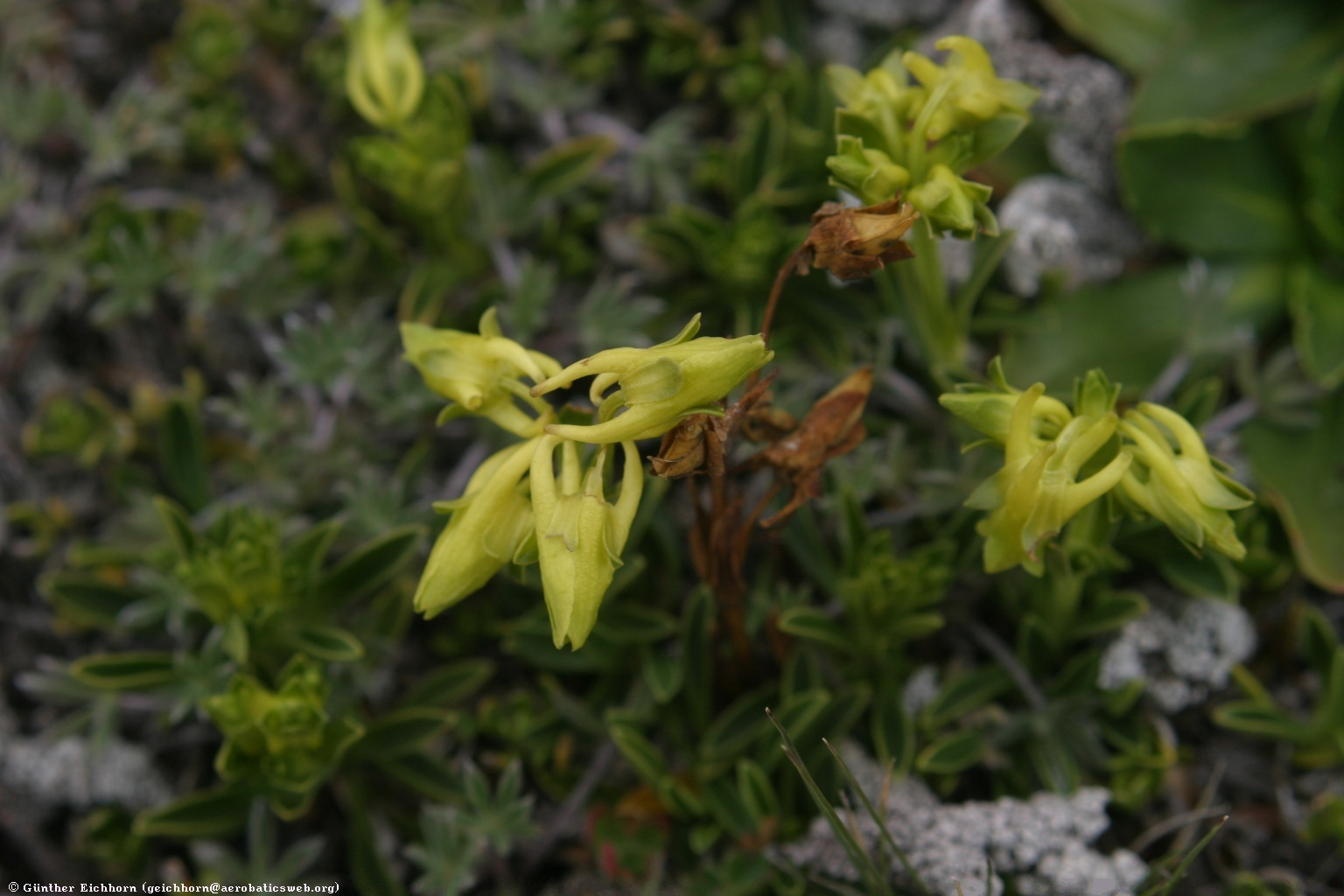 Cacho de Venado, Deer's Antlers (Halenia weddelliana). Cotopaxi, Ecuador